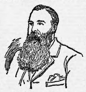 William Inskip, General Secretary of the National Union of Boot and Shoe Operatives and Treasurer of the Trades Union Congress, while attending the 1895 congress.